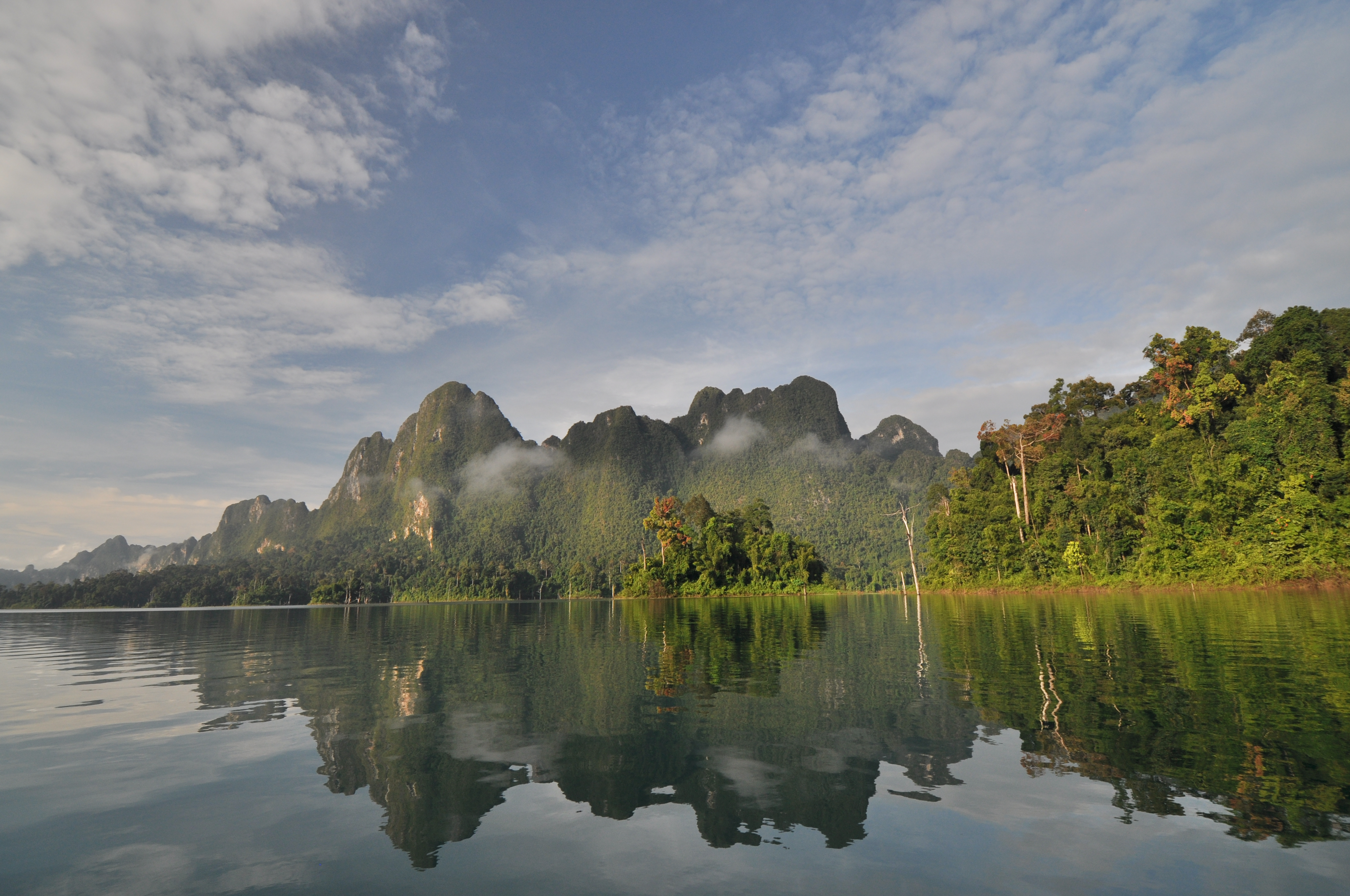 Cheow Lan Lake in Khao Sok National Park